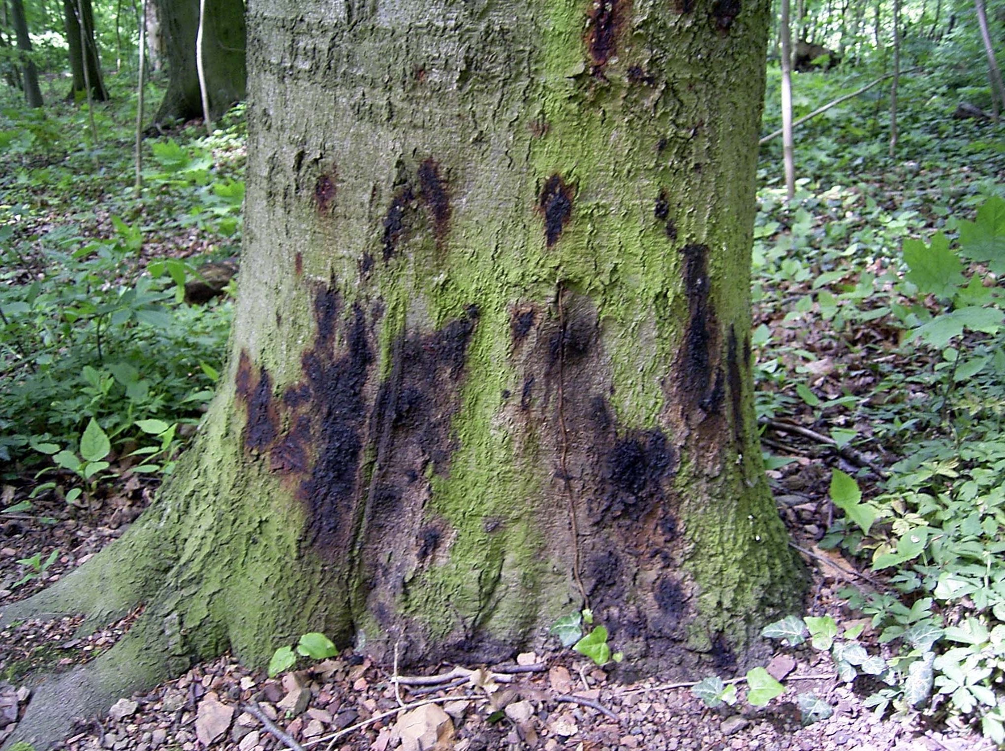 Kretzschmaria deusta, wood decay caused by a fungus infection. Common on Beech and other broadleaved trees including Oak (Quercus), Lime (Tilia), Maple (Acer).